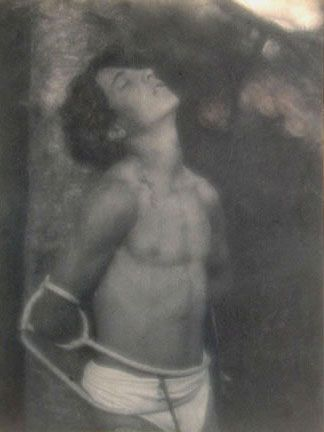 F. Holland Day, Saint Sebastian (1906).